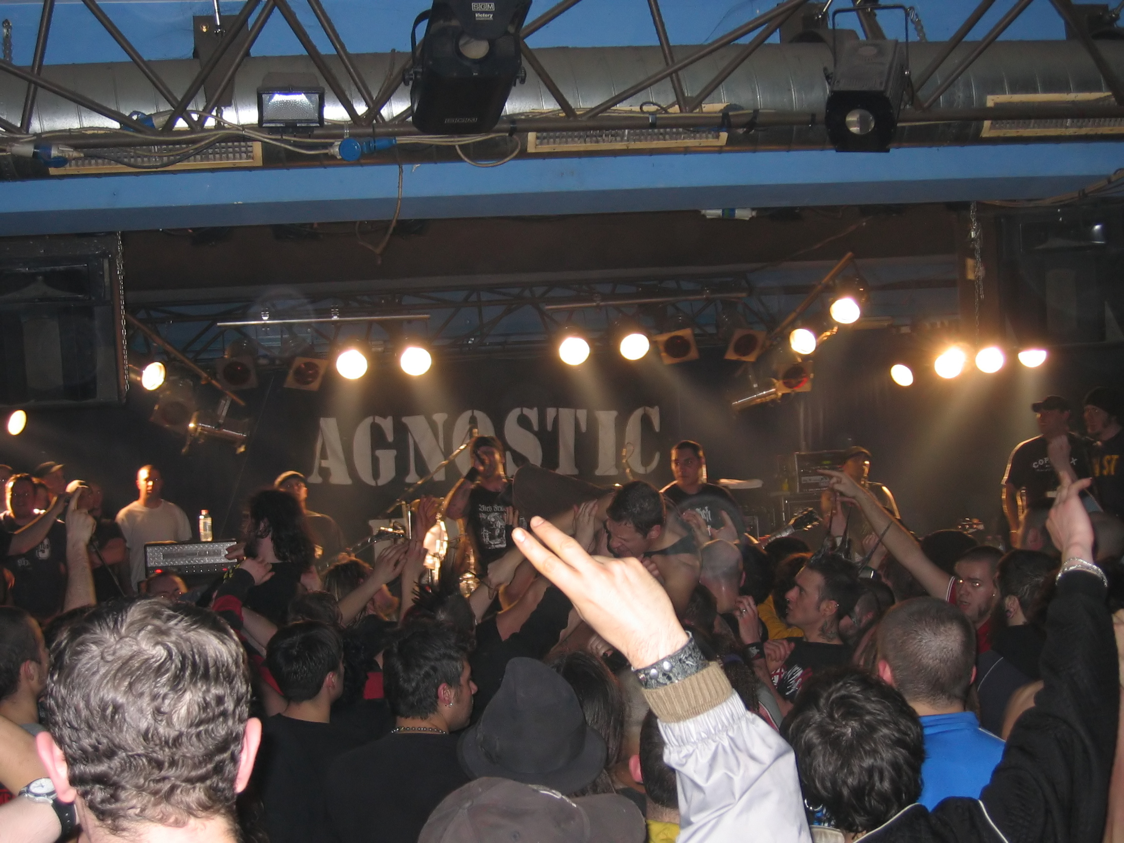 Agnostic Front live in 2005